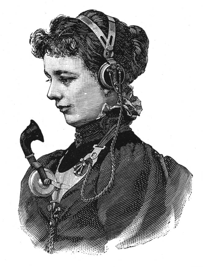 Breast microphone and headphones as shown in the 1897 catalogue of Aktiebolaget L. M. Ericsson & Co., model number 535/536/540/541 (described as “Breastplate Transmitter with Head Gear Receiver”). Made of aluminium.